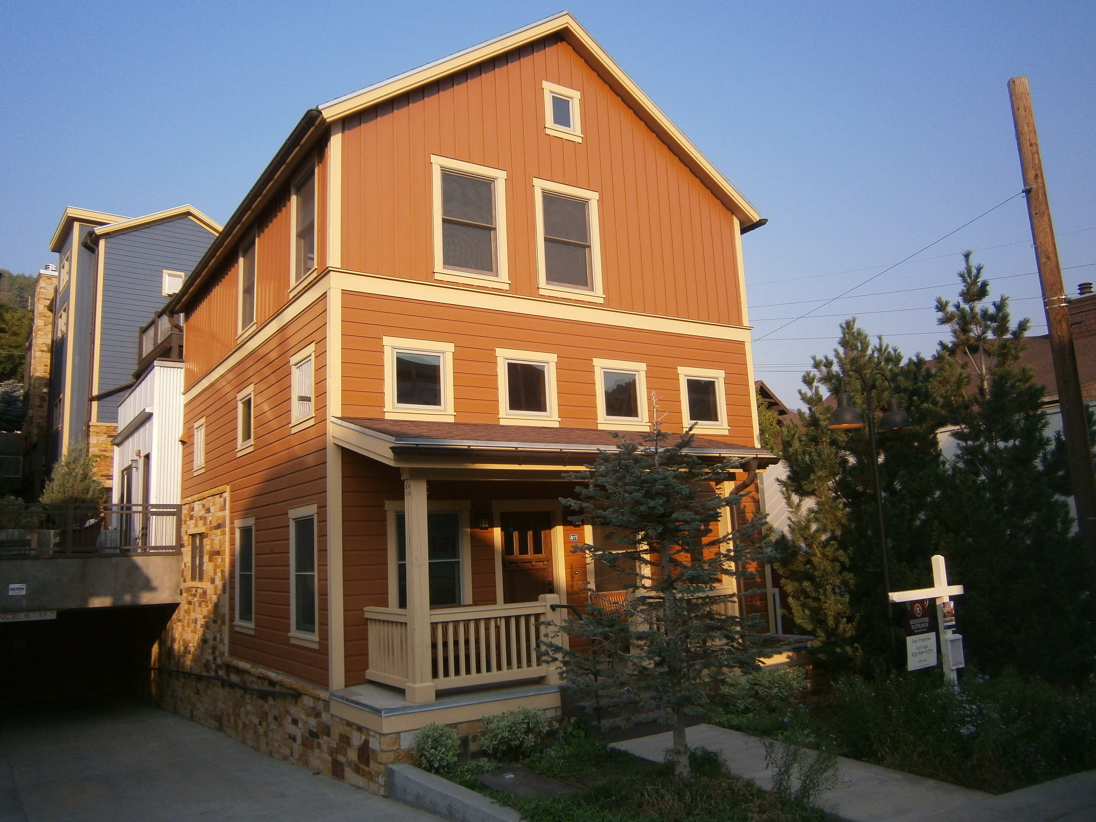 The Burt Kimball House, a historic home in Park City, Utah, United States.